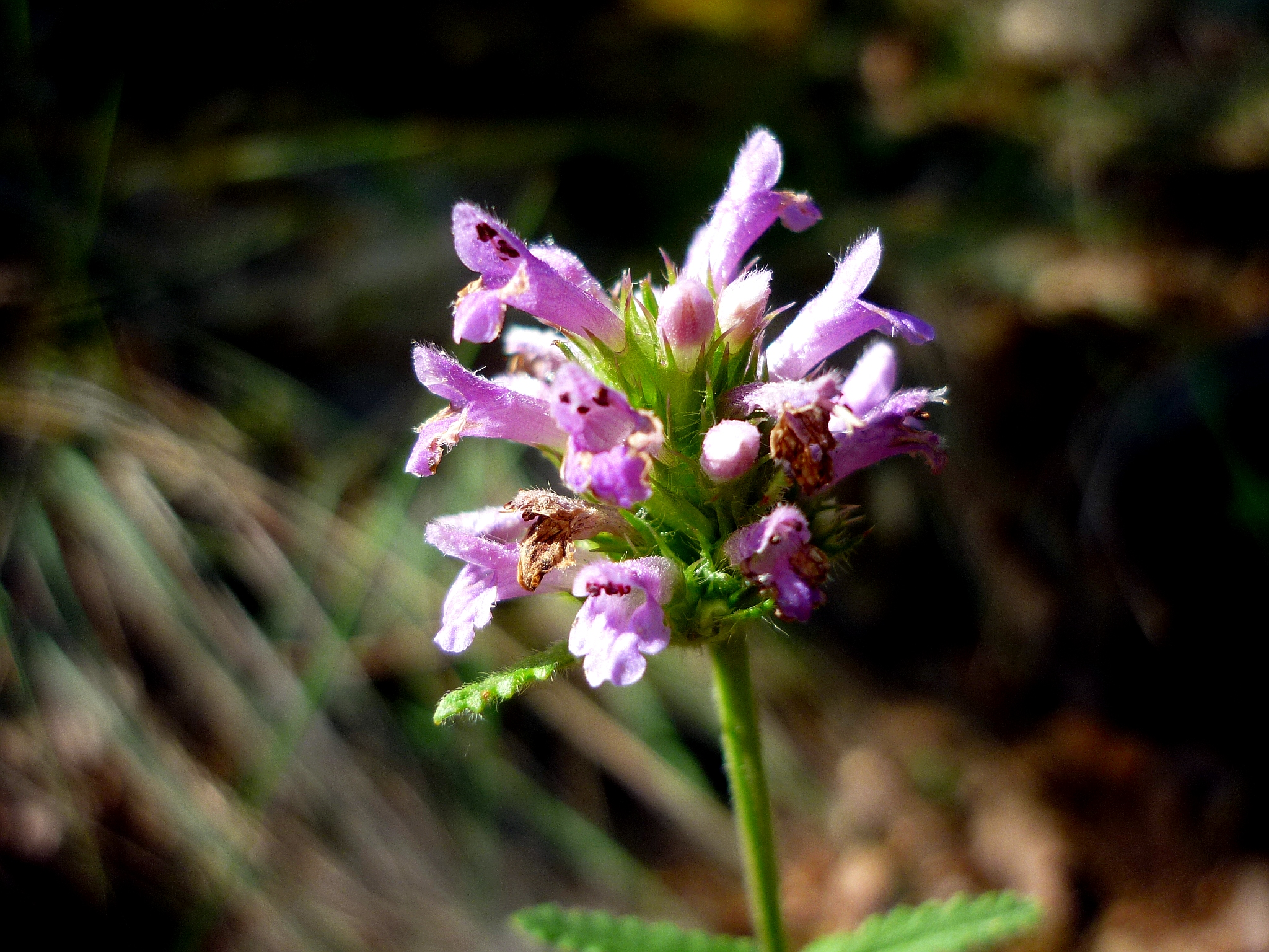 Stachys officinalis. In Torà (Segarra-Catalunya). To 590 m. altitude